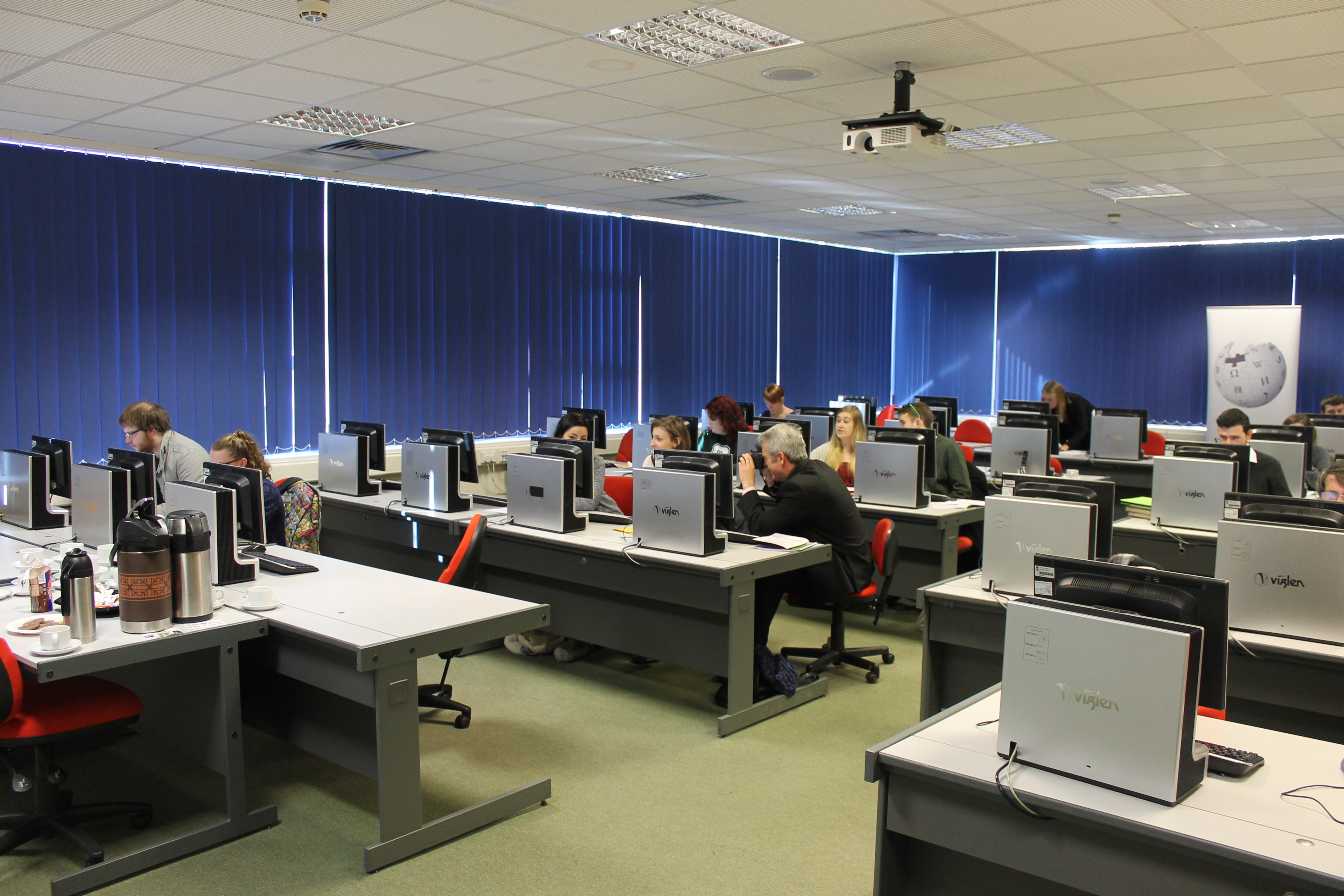 Wikimedia UK Edit-a-thon at Swansea University; 28 January 2015